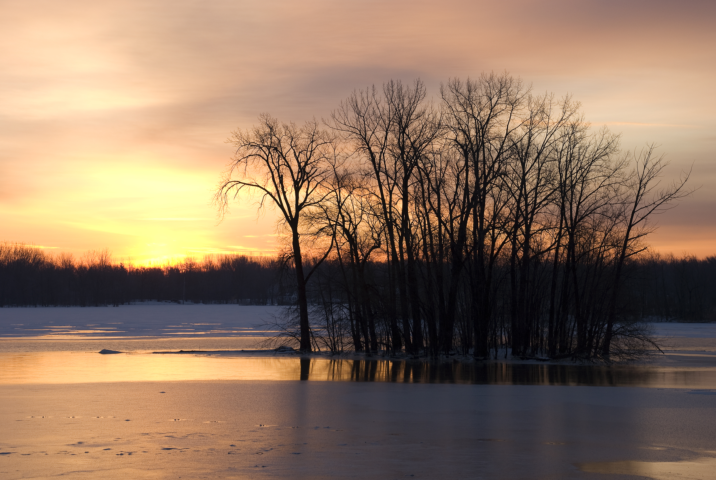 A tiny island close to the Church in Saint-Eustache, Quebec, where the Battle of Saint-Eustache took place.